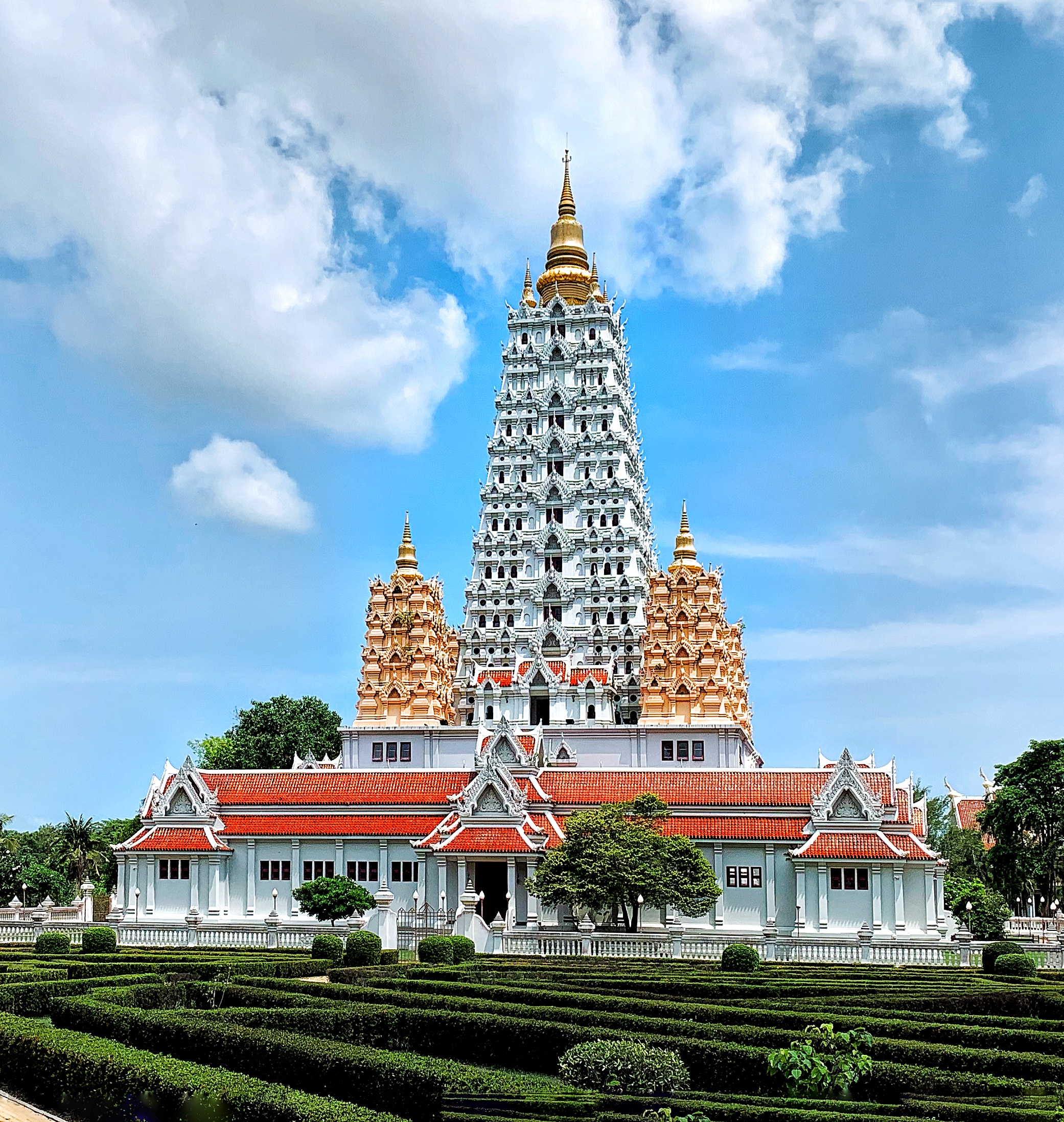 Wat Yansangwararam